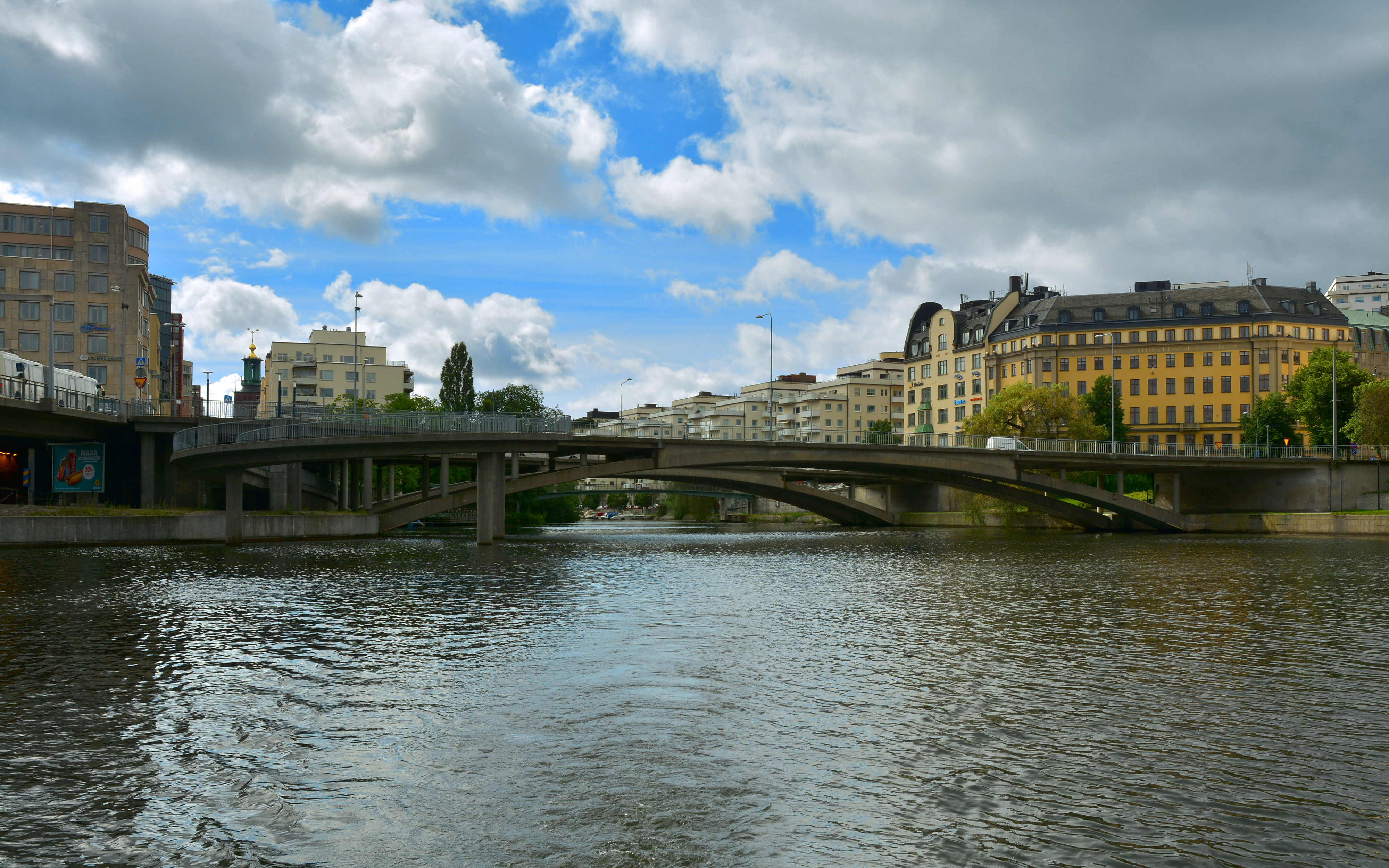 Kungsbron (King's Bridge) between Kungsholmen and Norrmalm in Stockholm, Sweden.